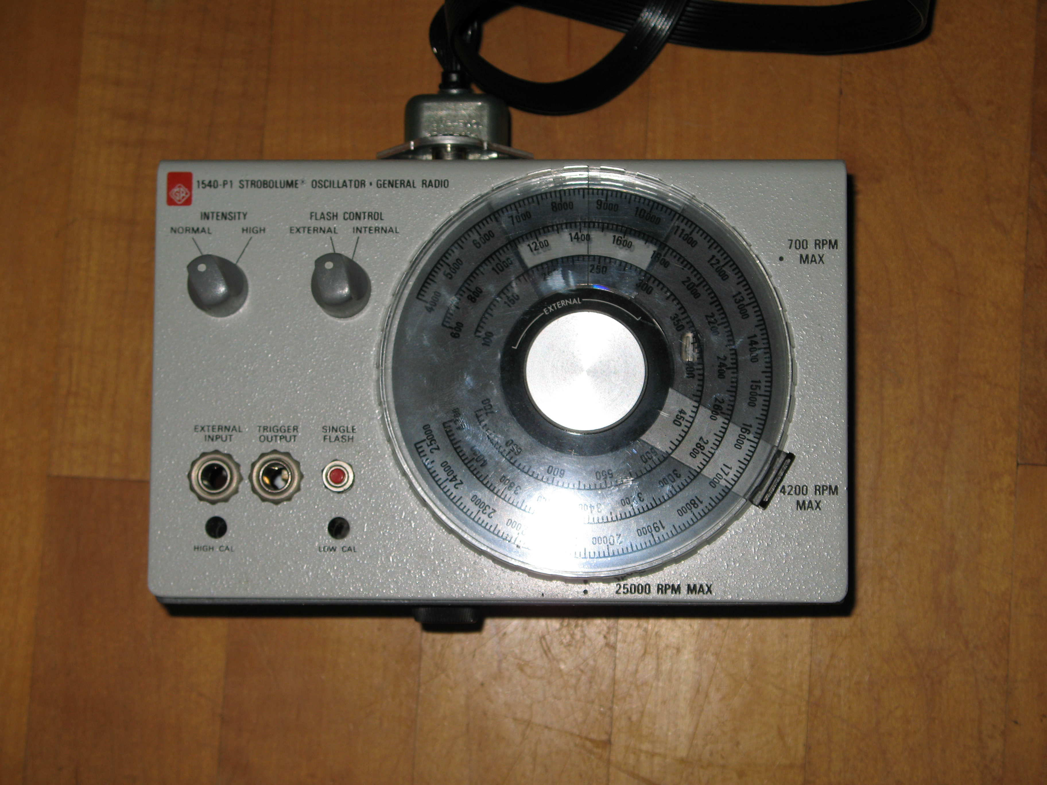 Close-up of the 1540 Strobolume control box, showing: manual trigger input slave strobe output manual trigger button normal/high intensity selector switch internal/external drive selection 3-level control knob with lighted dial for speed selection from 100 flashes per minute (FPM) to 25,000 FPM